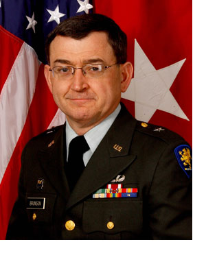 Brigadier General James A. Brunson of the Michigan Army National Guard